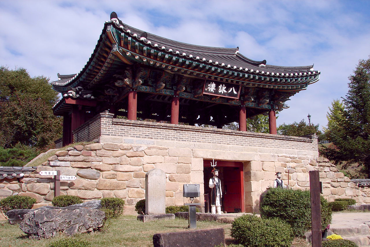 Paryeong-nu (pavilion) was the gateway to the Cheongpung magistrate's office. The time of its construction is not known, but magistrate Yi Jikhyeon rebuilt it in 1870. Built as a wall-fortress gate, it was erected on a height with an arched passage and formed with stacked rocks. The pavilion can be reached through a stone stairway built on the north. It has a hanging board describing a poem by King Gojong period's magistrate Min Ji-sang on the "eight great scenic places" of Cheongpung. Cheongpung Cultural Properties Complex - located by the Chungjuho Lake. This complex is a reconstructtion of Cheongpung, a village that became submerged after the construction of Chungju Dam. It took three years to relocate the buildings and structures in the current site at a cost of of over 1.6 trillion won. North Chungcheong Province Tangible Cultural Property #35.